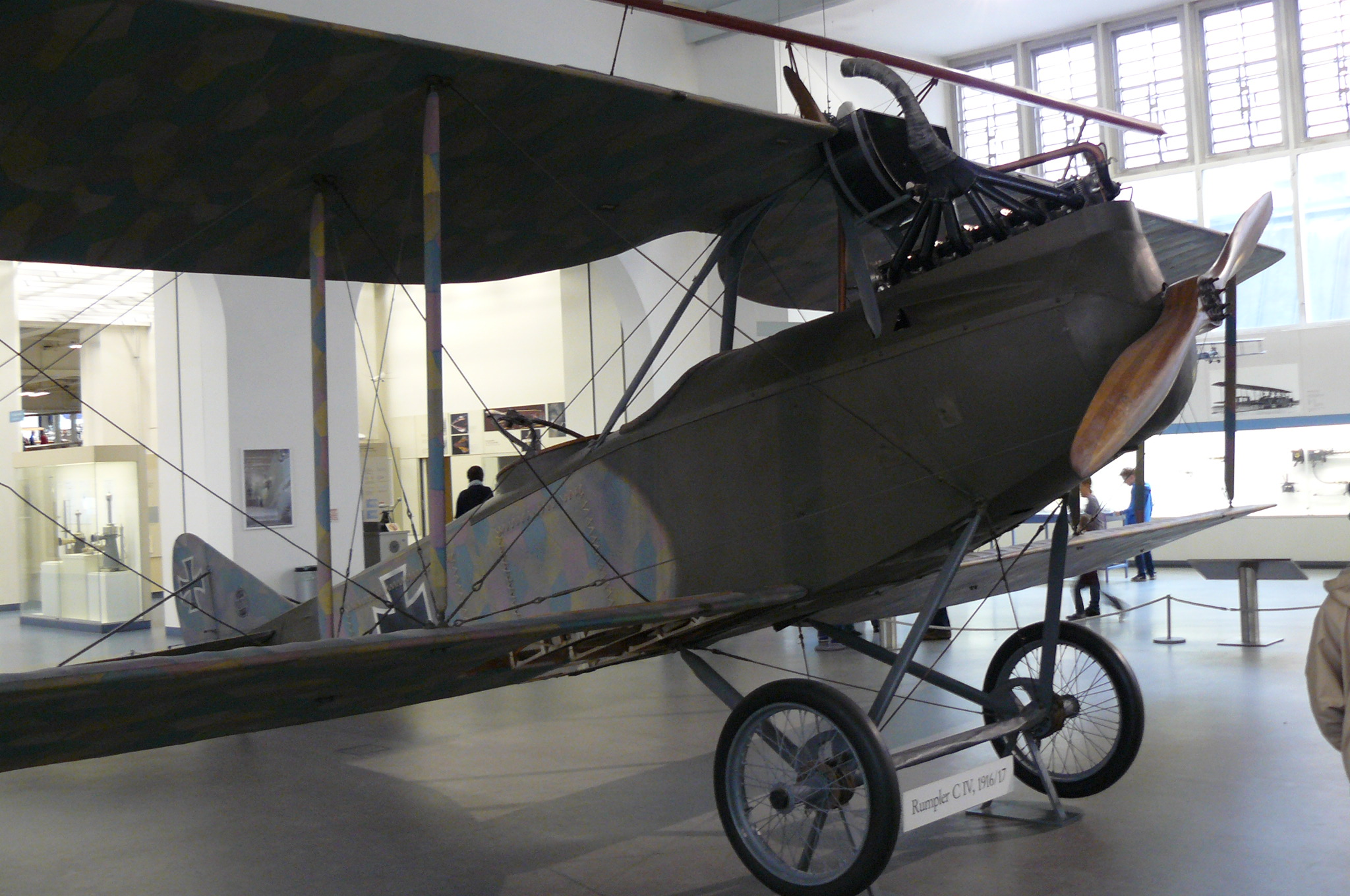 Rumpler C.IV as seen in Deutsches Museum, Munchen (April 2012).